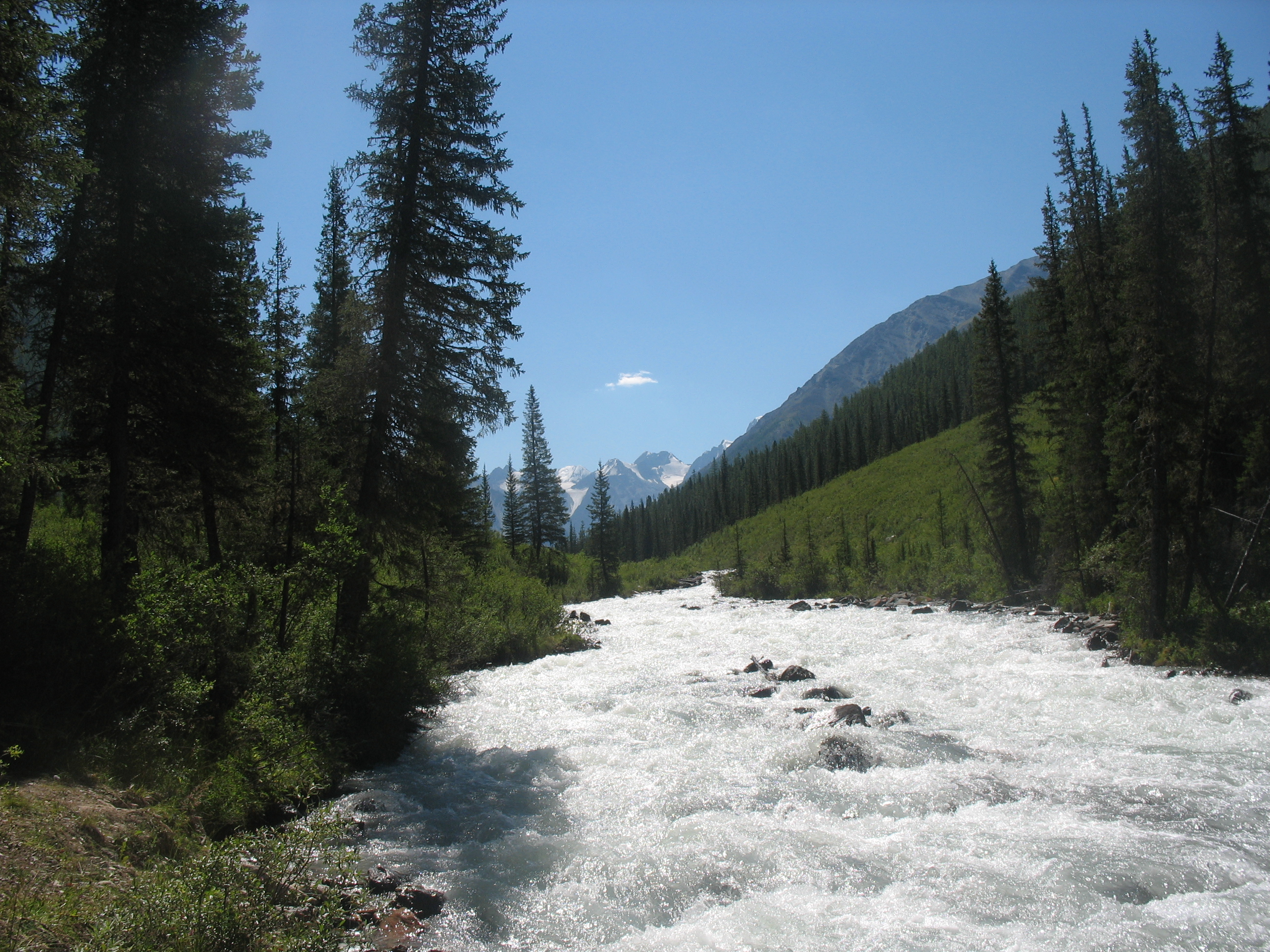 Siberian Spruce forest, Reka Shavla, Altay Mountains